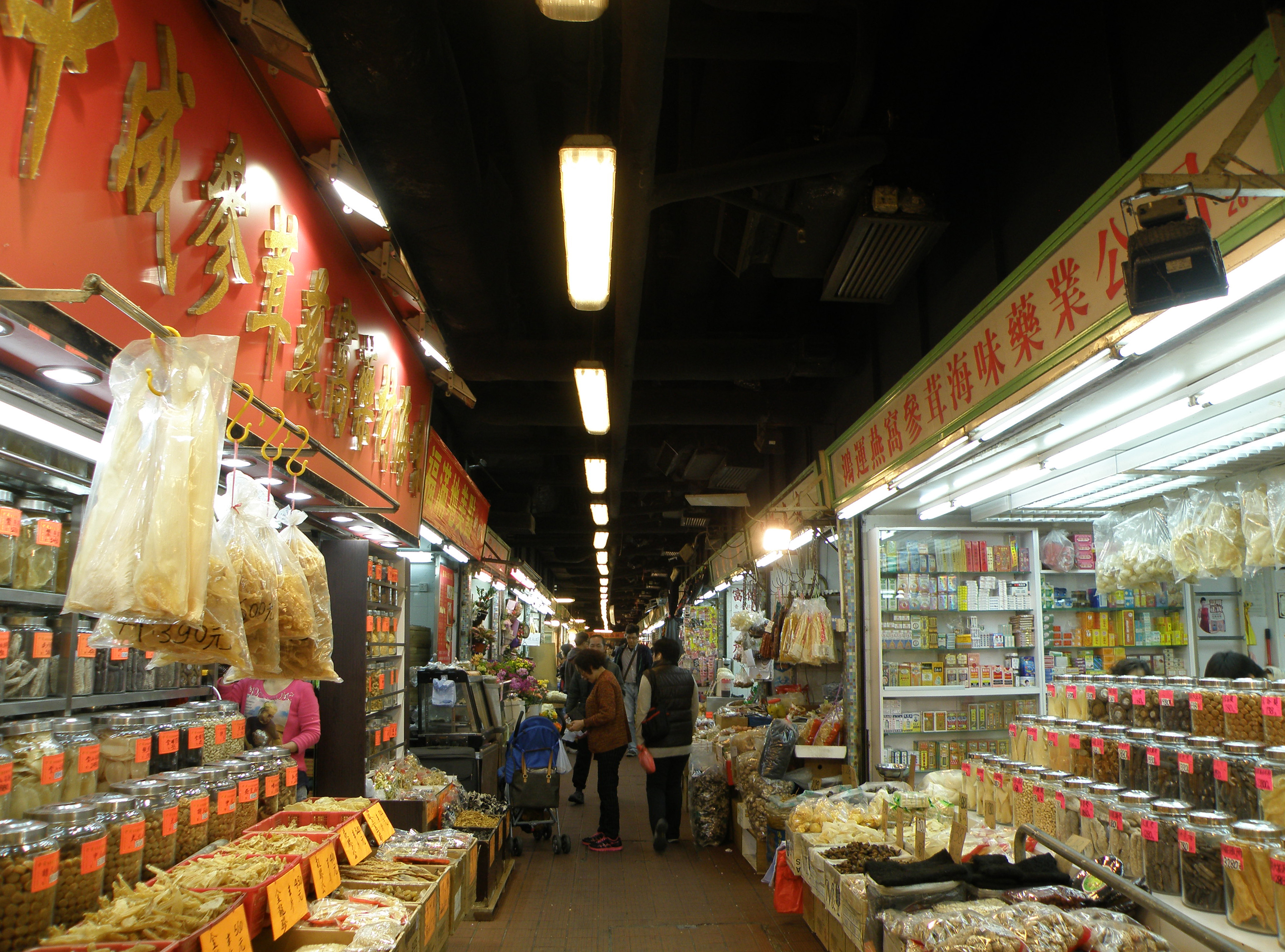 Glorious Garden Market in Tuen Mun, Hong Kong.